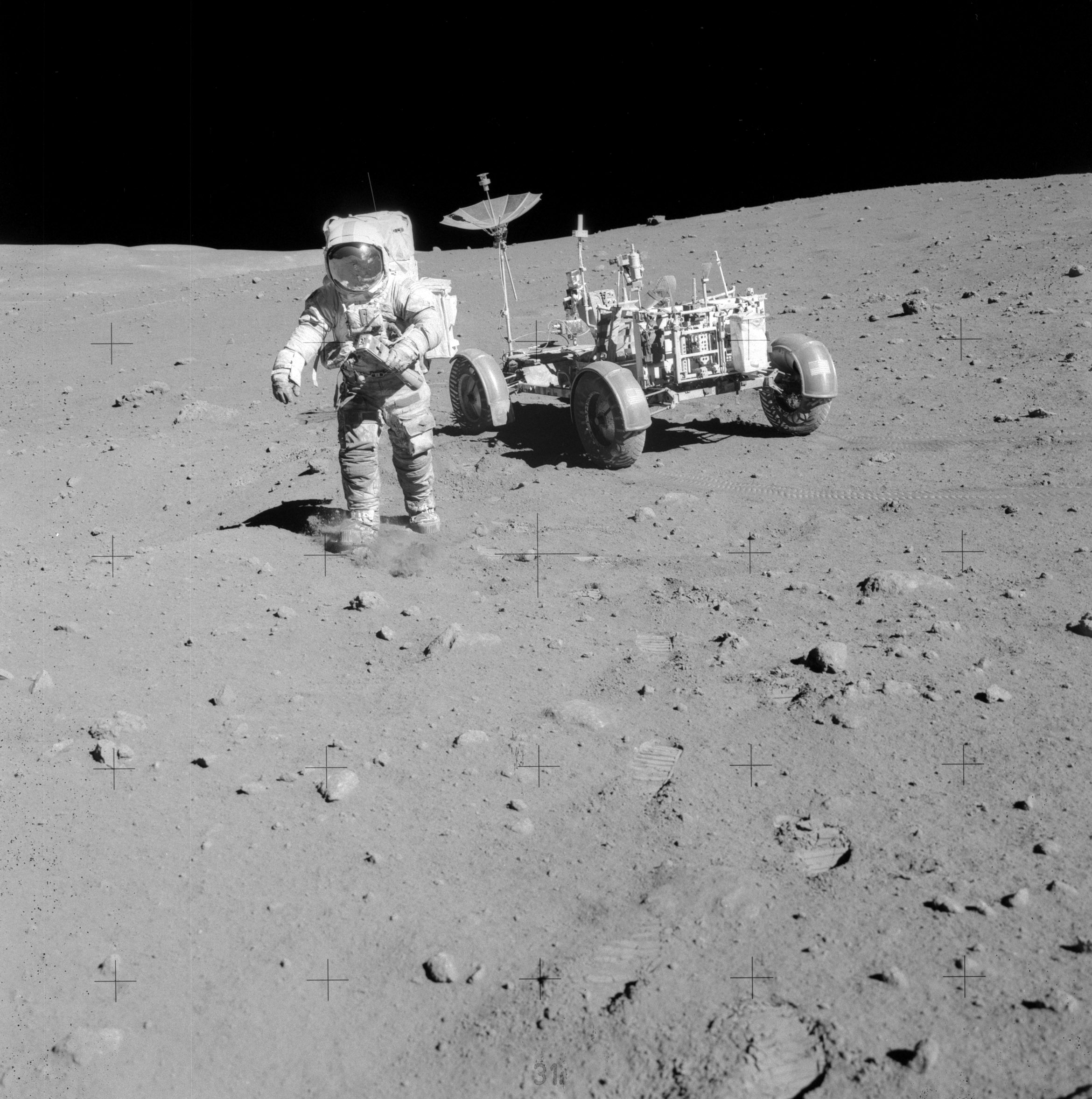 Dave Scott on the rim of Hadley Rille at Station 10